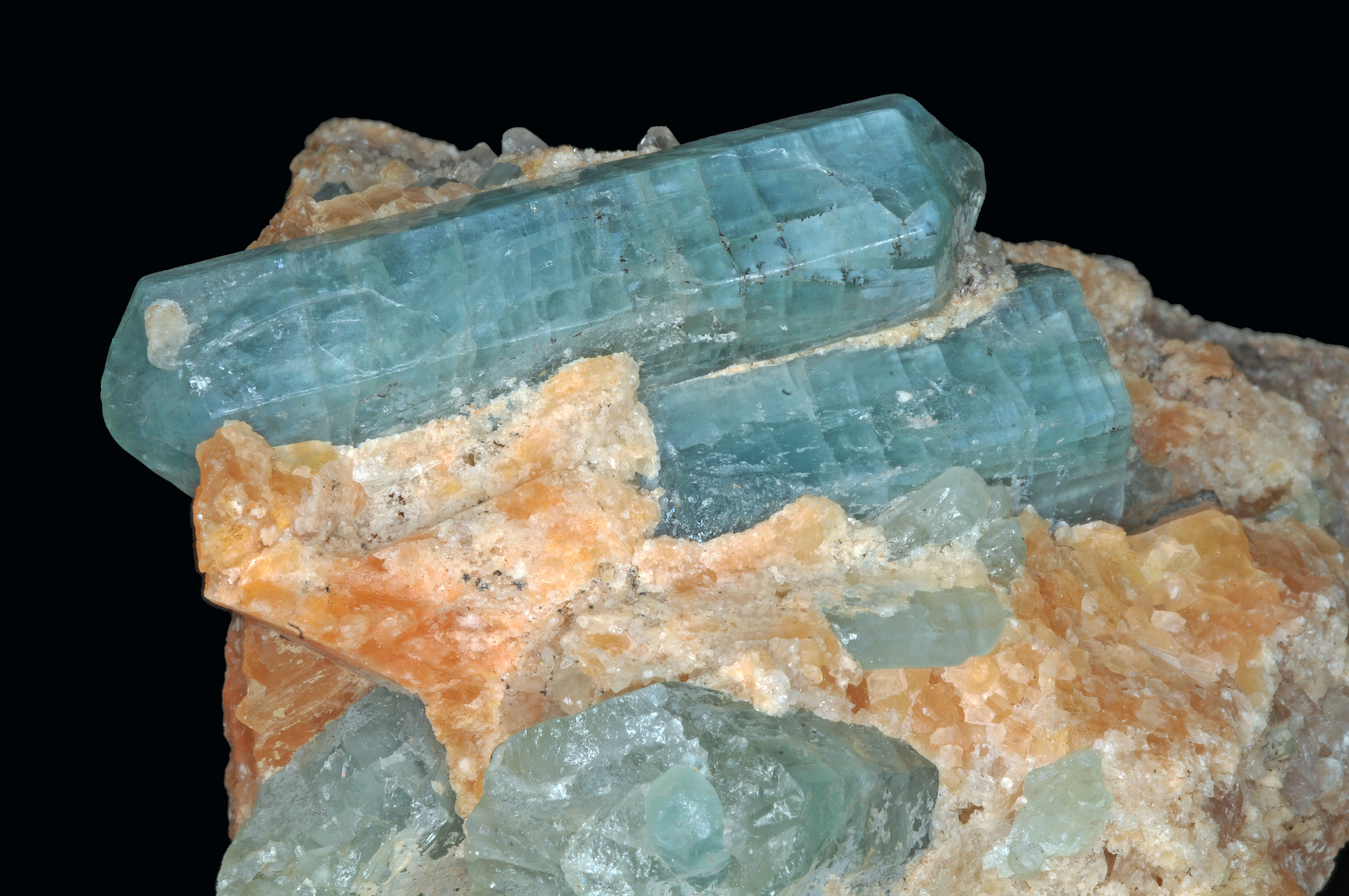 crystals of apatite-(Caf), crystals of calcite : Slyudyanka (Sludyanka), Lake Baikal area, Irkutskaya Oblast’, Prebaikalia (Pribaikal’e), Eastern-Siberian Region, Russia